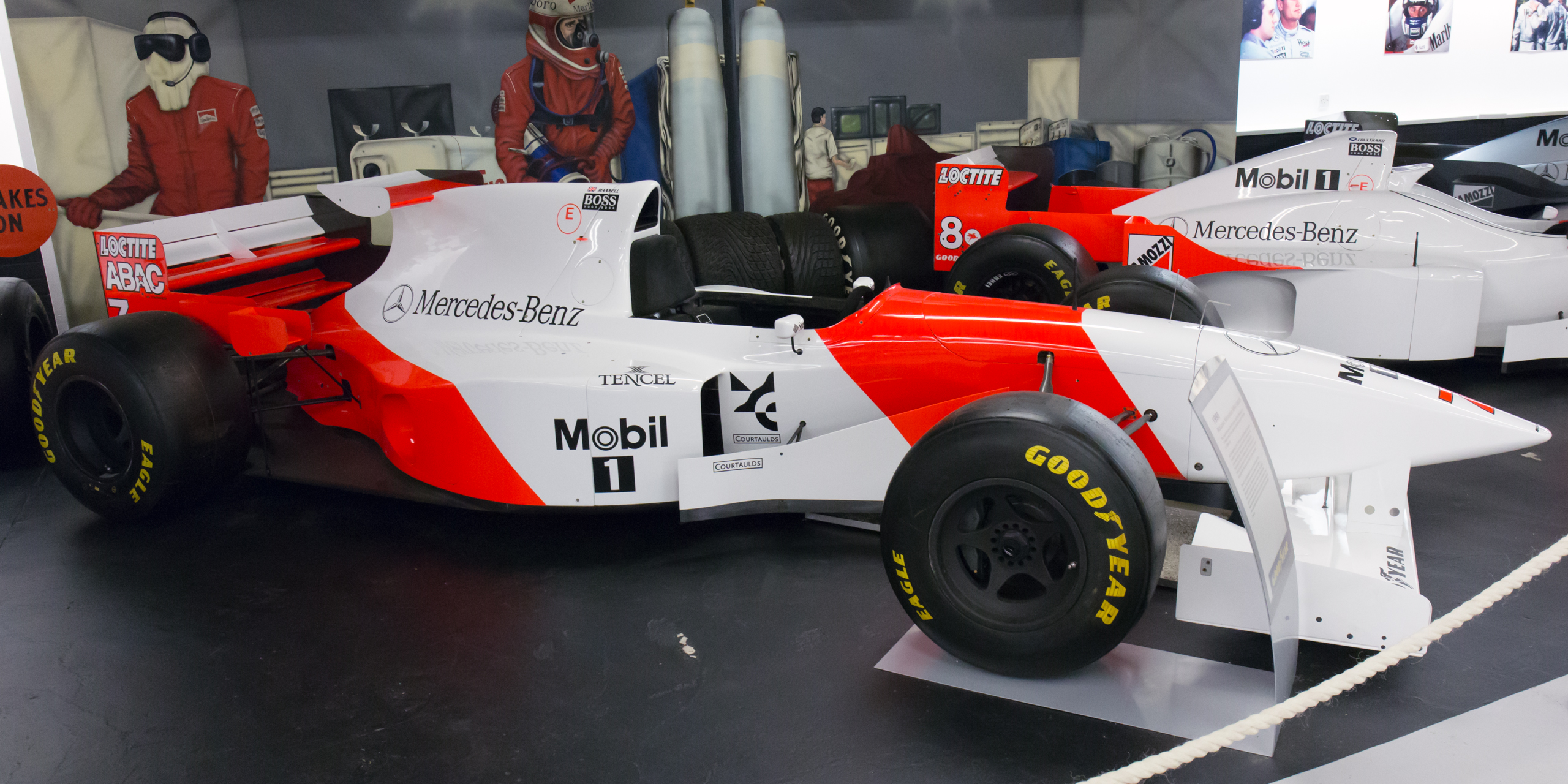 1995 McLaren MP4/10B (#7 Nigel Mansell)